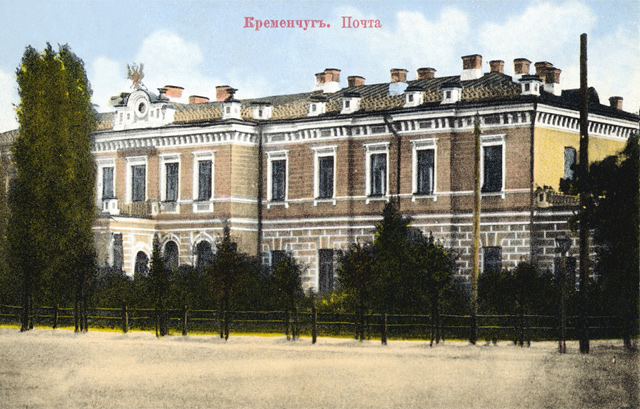 Postcards of old Kremenchuk. Поштамт.